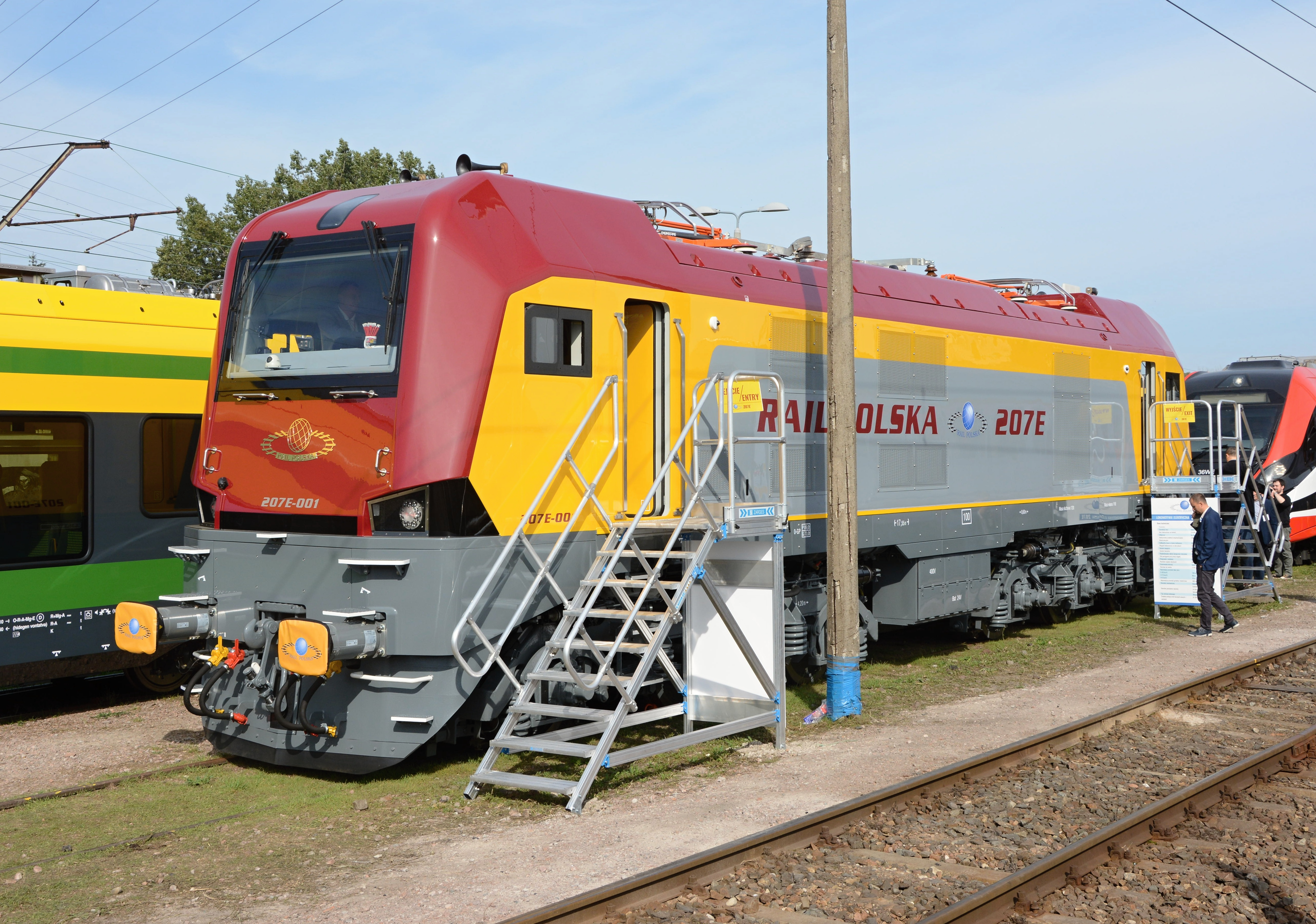 Locomotive 207E-001 of Rail Polska; TRAKO trade fair, Gdańsk, Poland